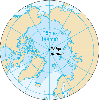 Map in Estonian showing the location of the North Pole.